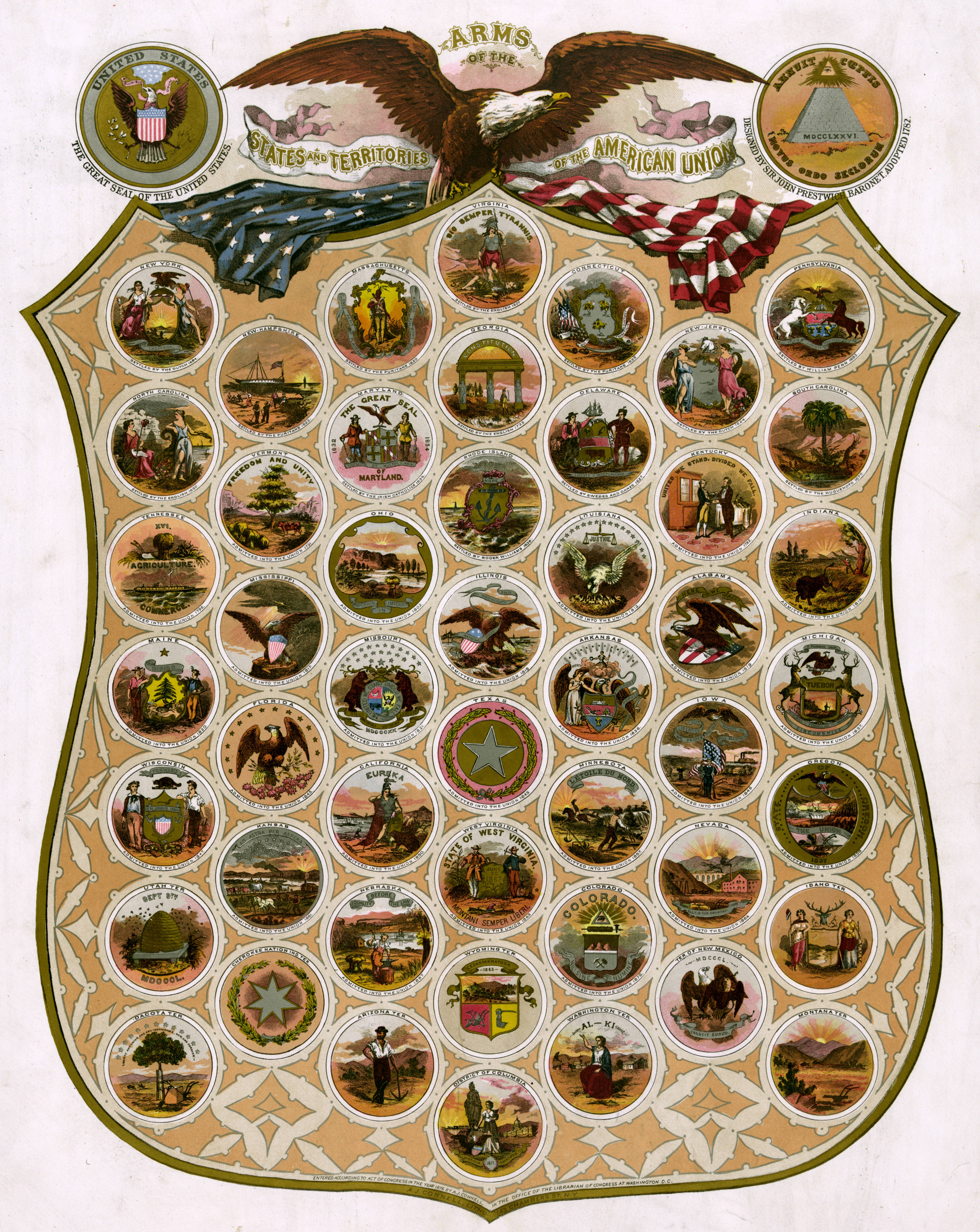 Arms of the states and territories of the American union in 1876 (38 states and 10 territories, including the District of Columbia).)